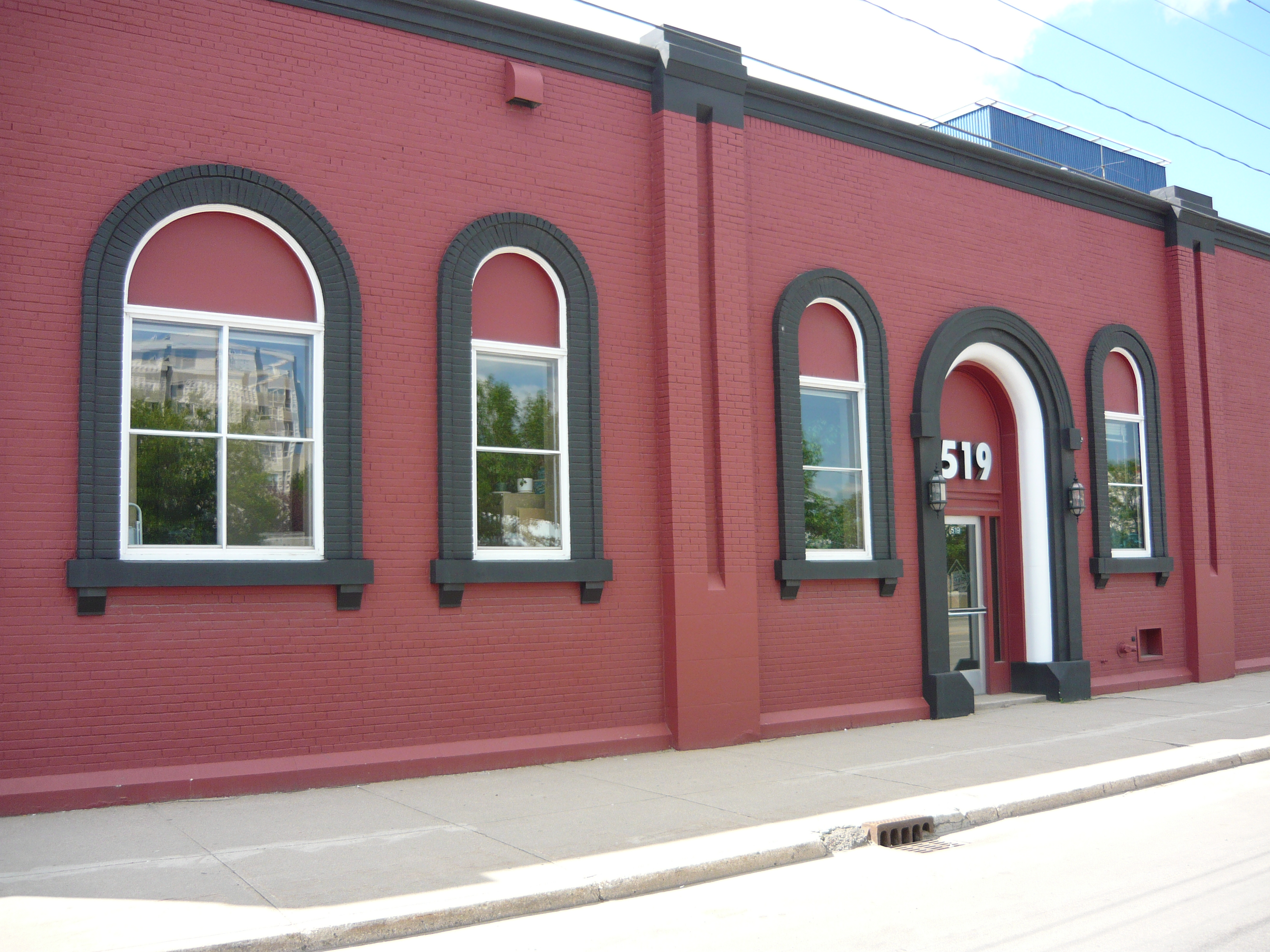 Papst Brewing Company (1927), 519 Second Avenue North at Queen Street, Saskatoon, Saskatchewan, Canada. Now Great Western Brewing Company. Architect: David Webster.